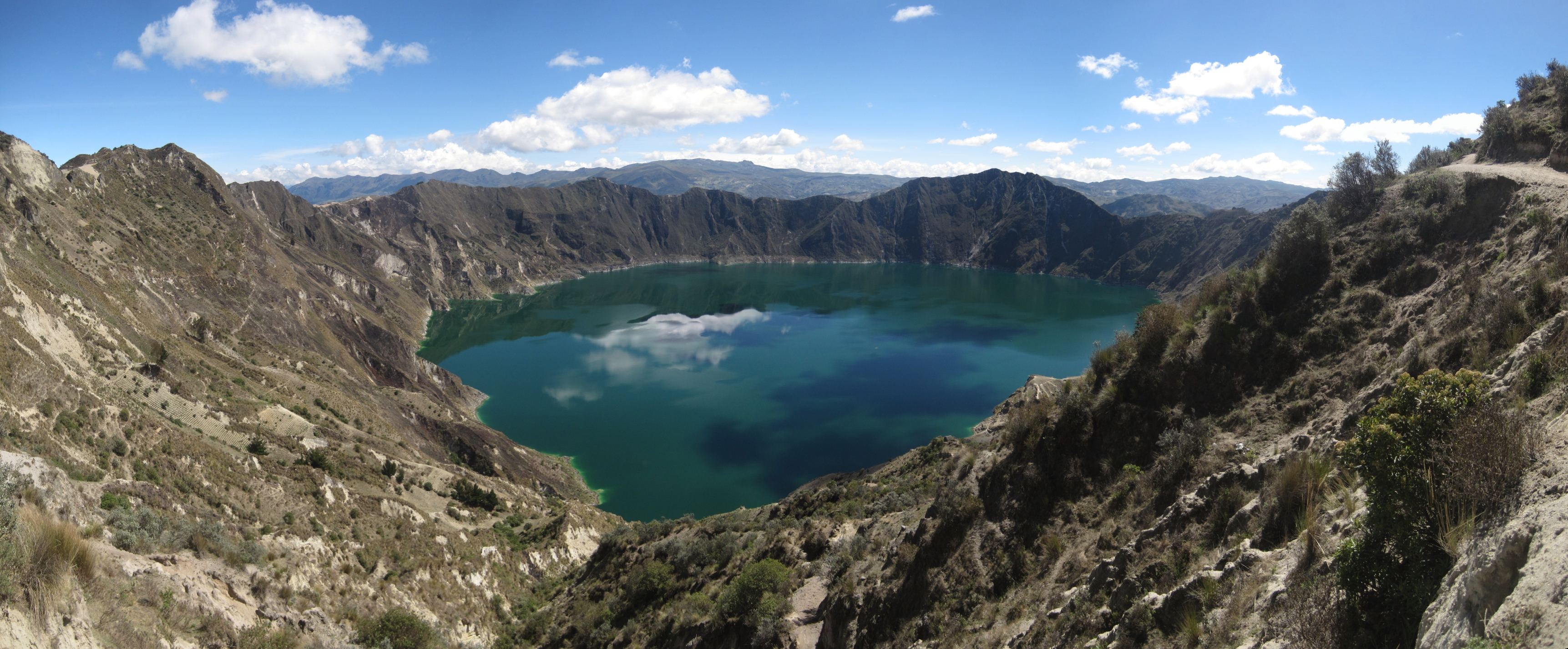 The Quilotoa crater lake seen from the caldera rim, Ecuador.